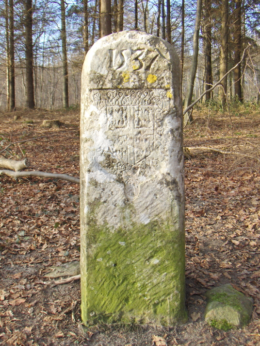 Former boundary stone (1537) with coat of arms of Anne de Montmorency, located in Forest of Chantilly